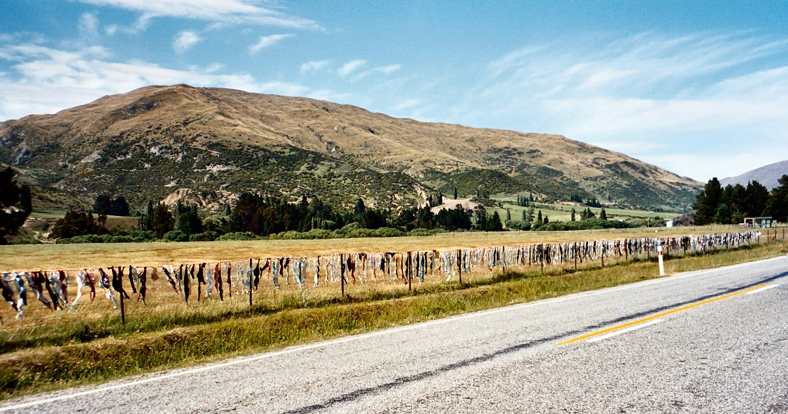 The Cardrona Bra Fence as it existed in December 2002.